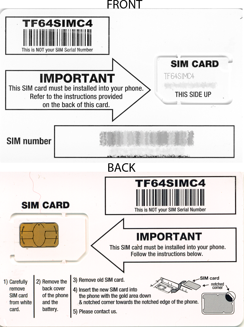 Tracfone Wireless Inc. Sim card, which contains no branding or logos. As it contains no trademarks or intellectual property this image is public domain